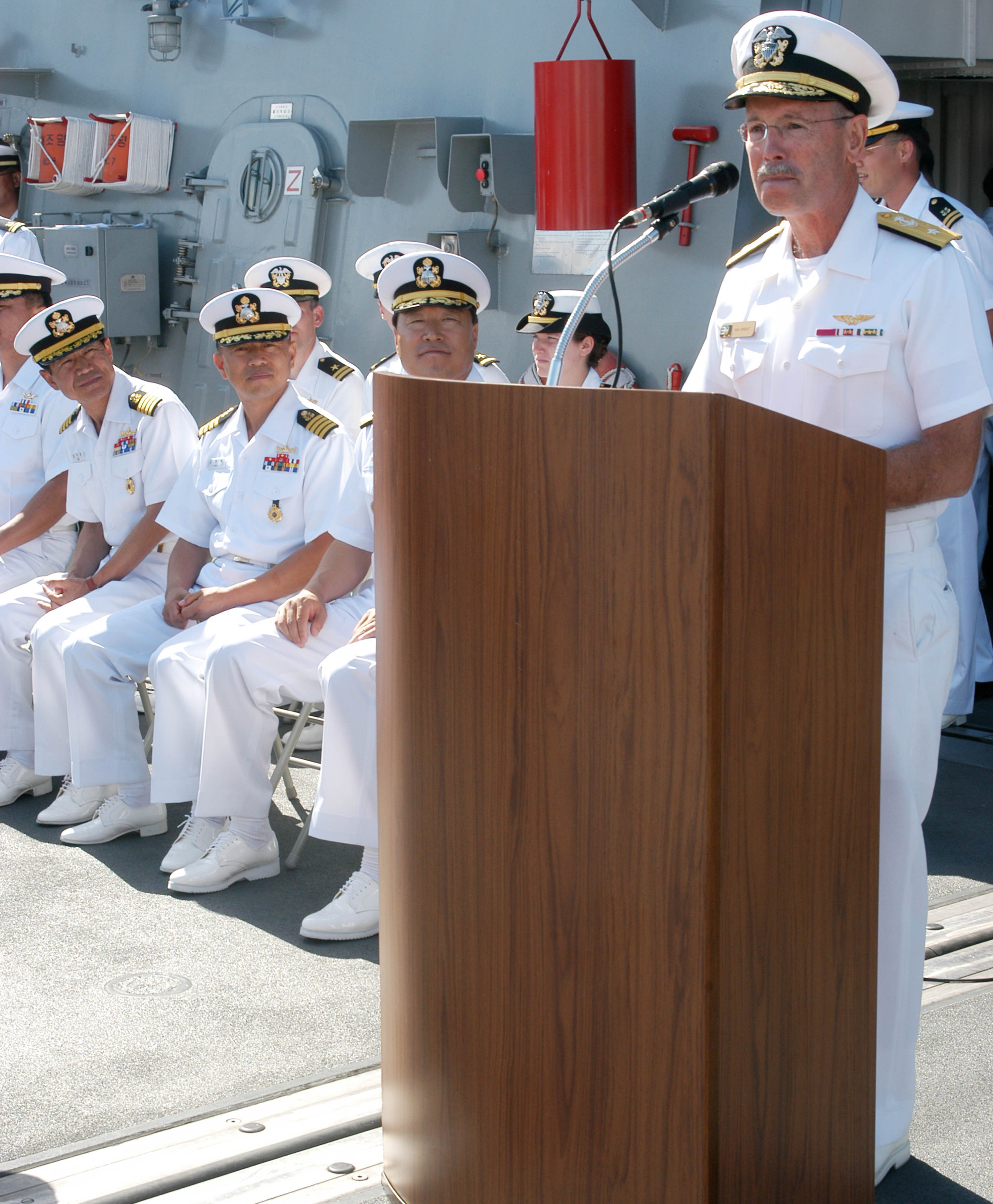 San Diego (Oct. 17, 2006) - Rear Adm. Garland Wright, Deputy Joint Forces Maritime Component Commander for U.S. Third Fleet, speaks with U.S. and Korean sailors aboard Dae Jo Yeong (DDG 977). The ROKN’s visit to San Diego is in support of training efforts, and interaction with friends and allies. U.S. Navy photo by Mass Communication Specialist Seaman Michael C. Barton (RELEASED)